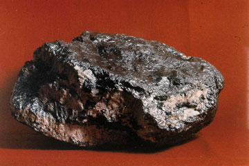 Bornite